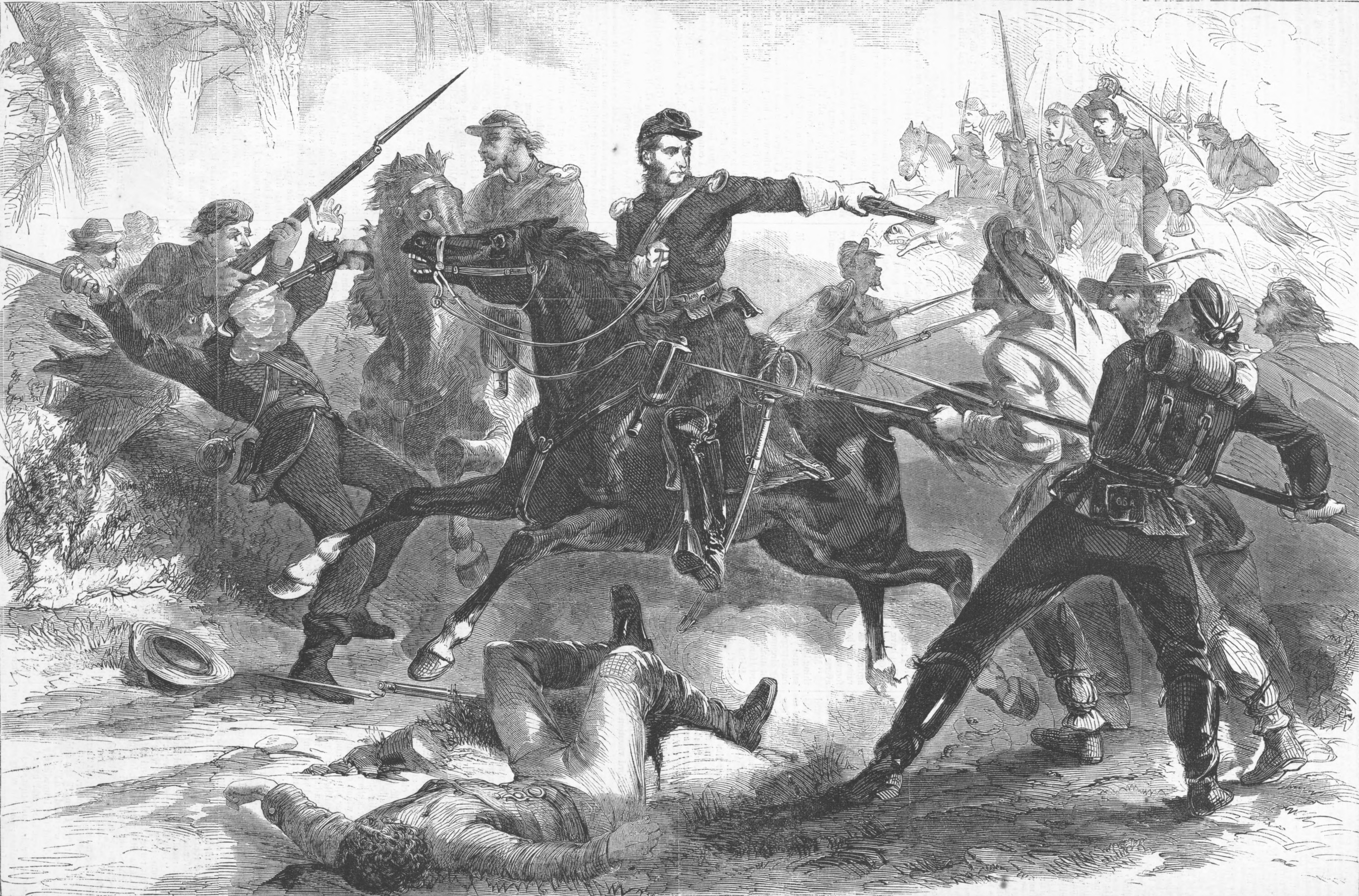 Cartoon from Harper's Weekly (1863 May 30, p. 348). "Colonel [Hugh Judson] Kilpatrick's late cavalry raid through Virginia"